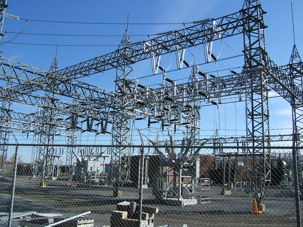 Hydro-Québec's Saint-Sulpice substation, located in L'Assomption, Quebec.